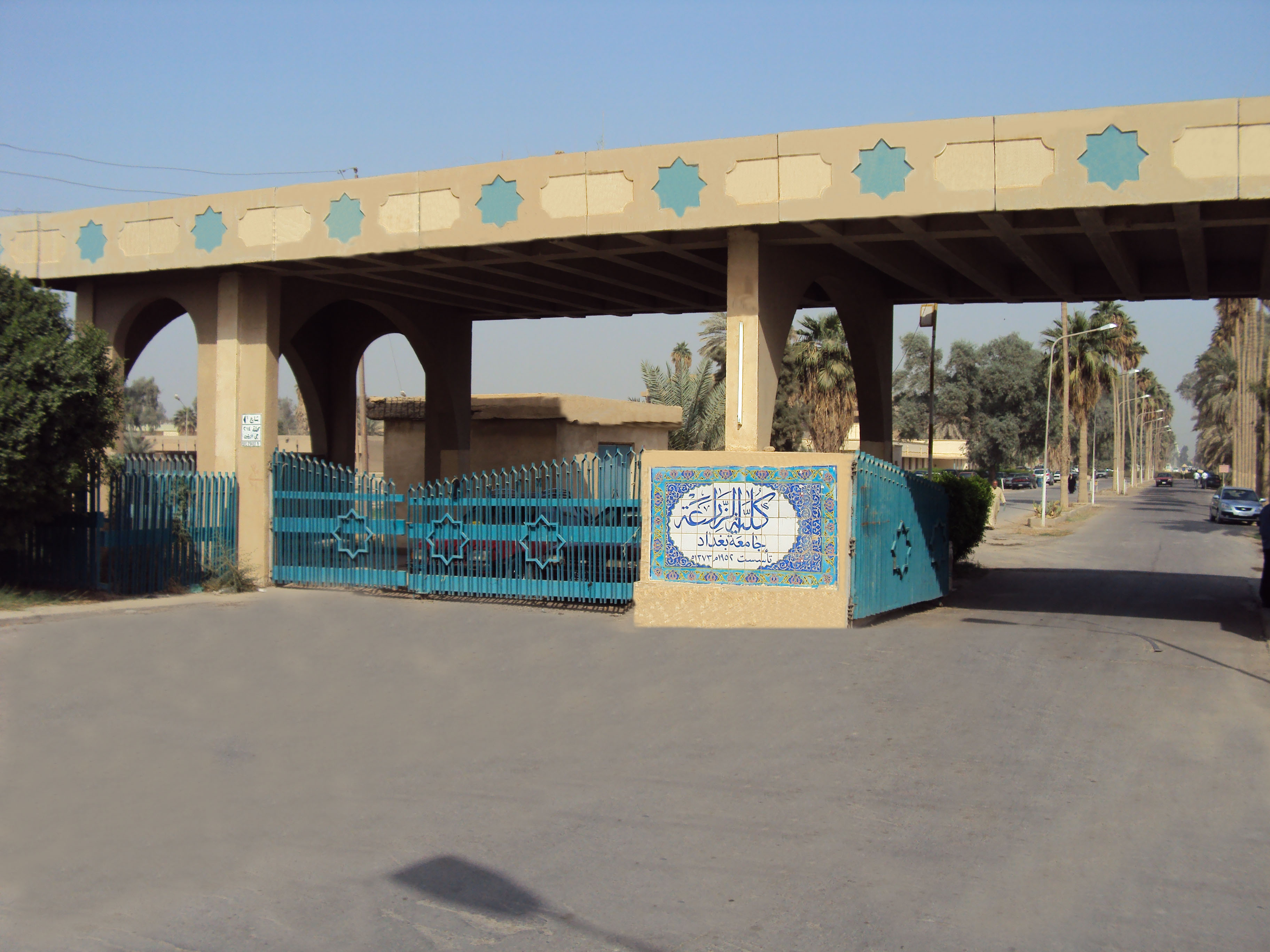 College of agriculture